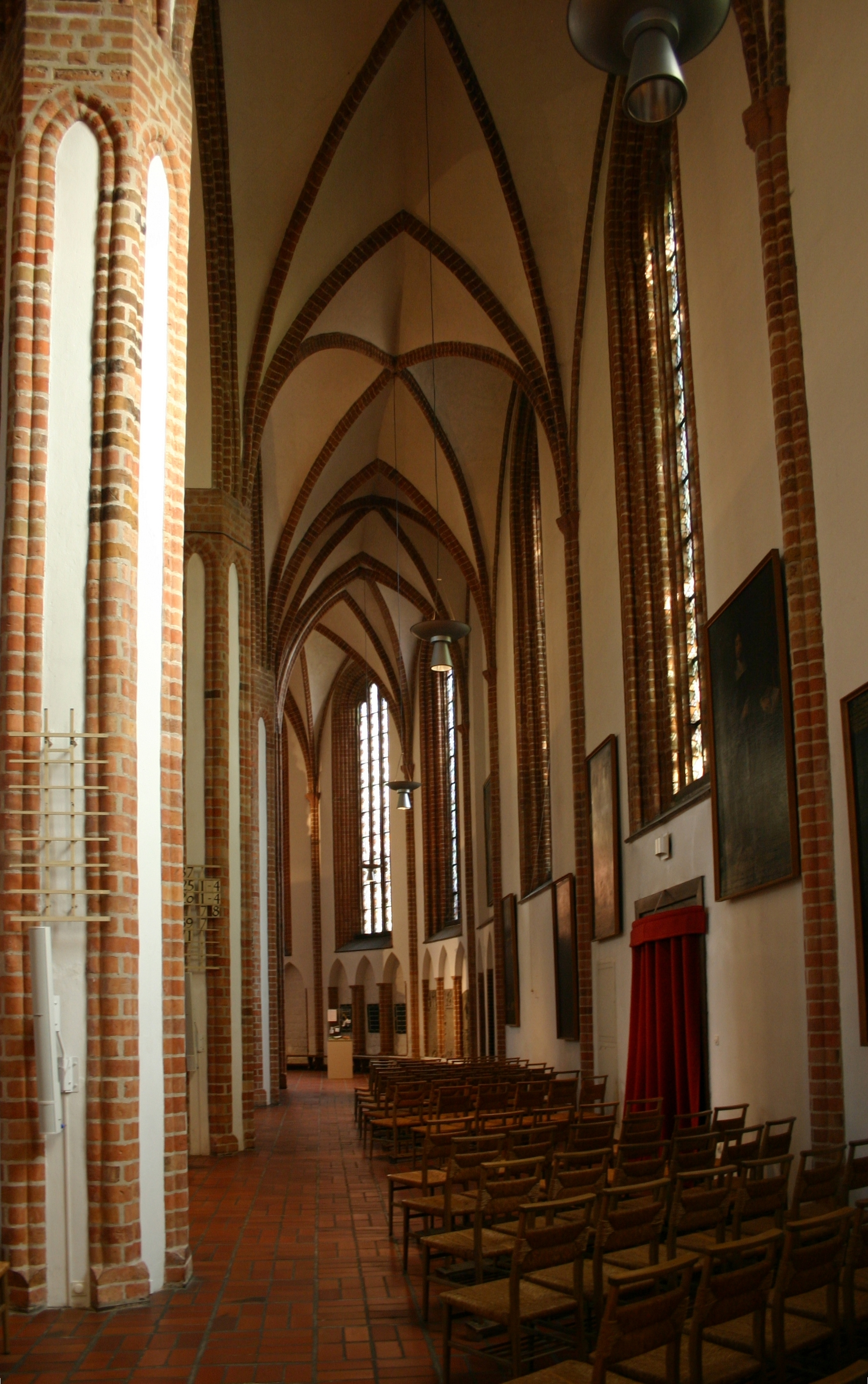 Side nave of St. Nicholas in Berlin-Spandau